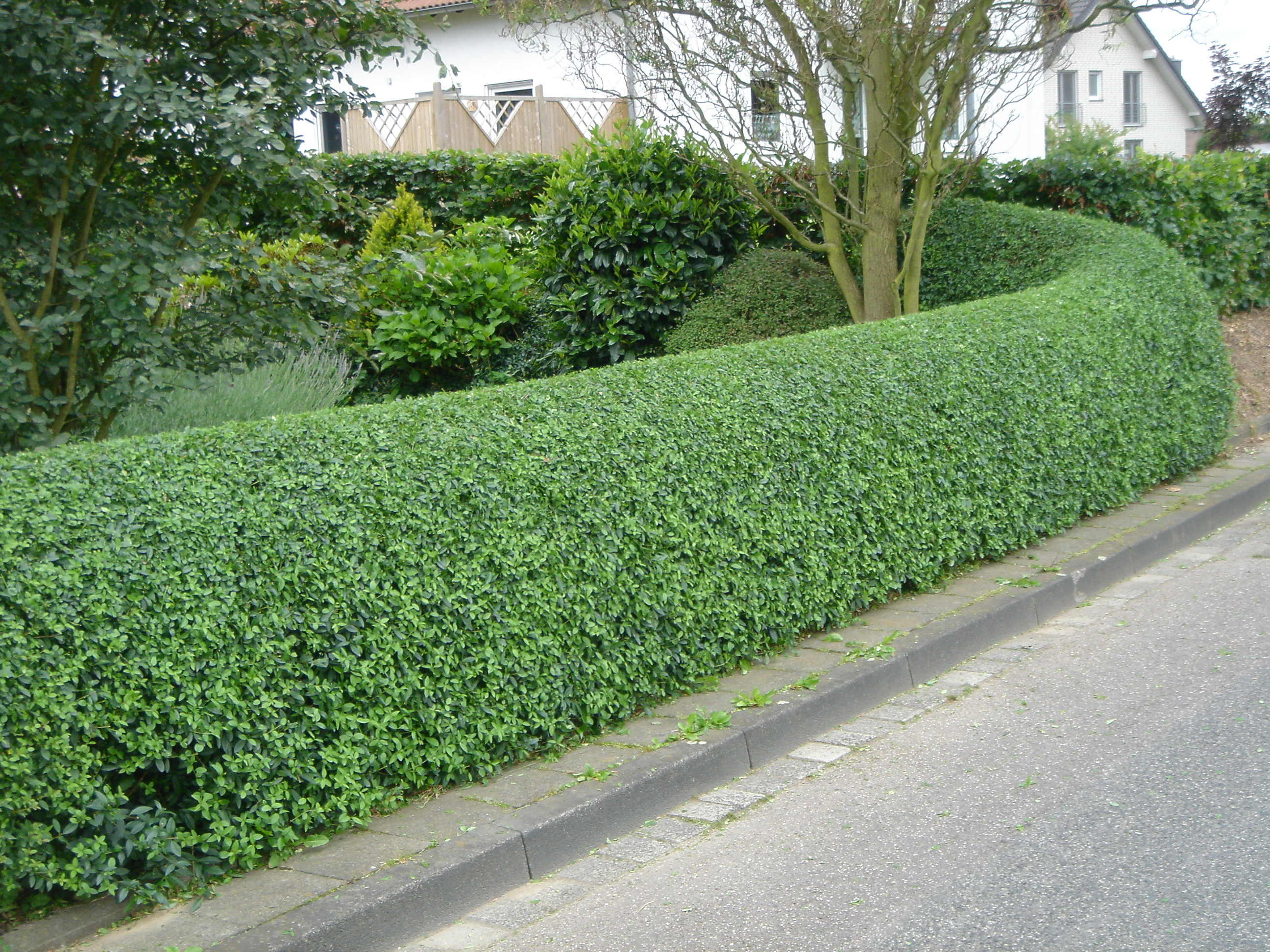 Hedge Ligustrum sp.